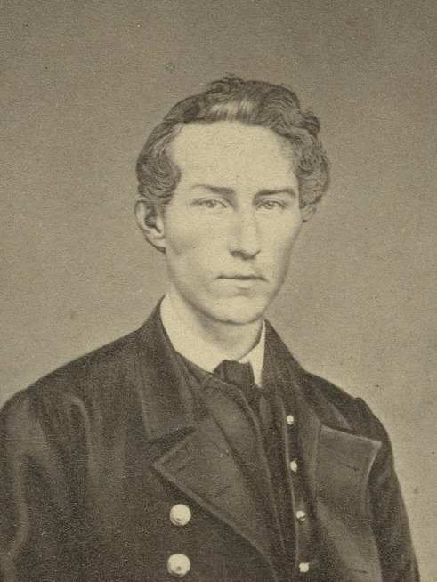 Carte-de-Visite of Spencer Kellogg Brown, by William J. Baker.